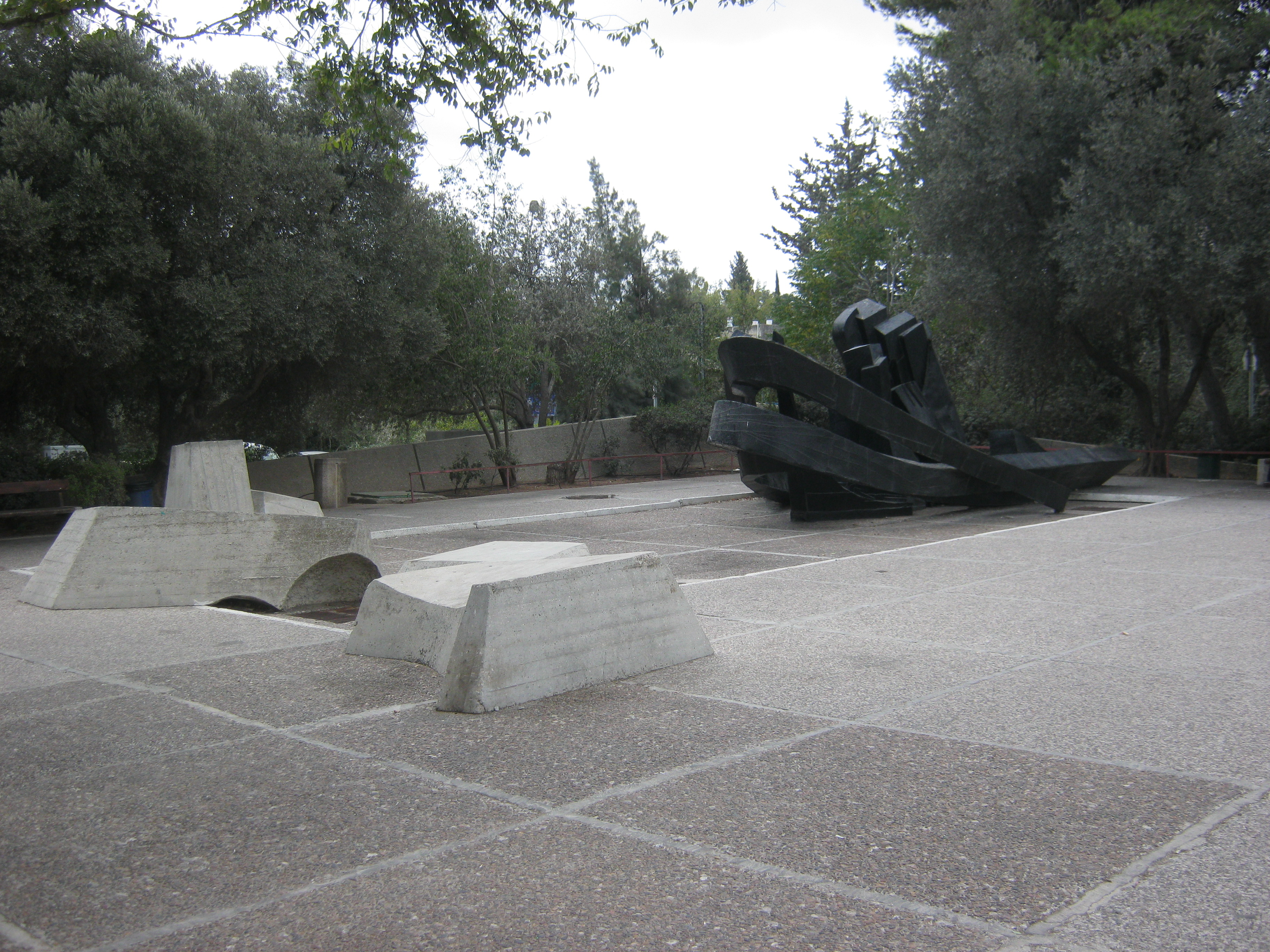 Denmark Square Memorial, Beit Hakerem, Jerusalem